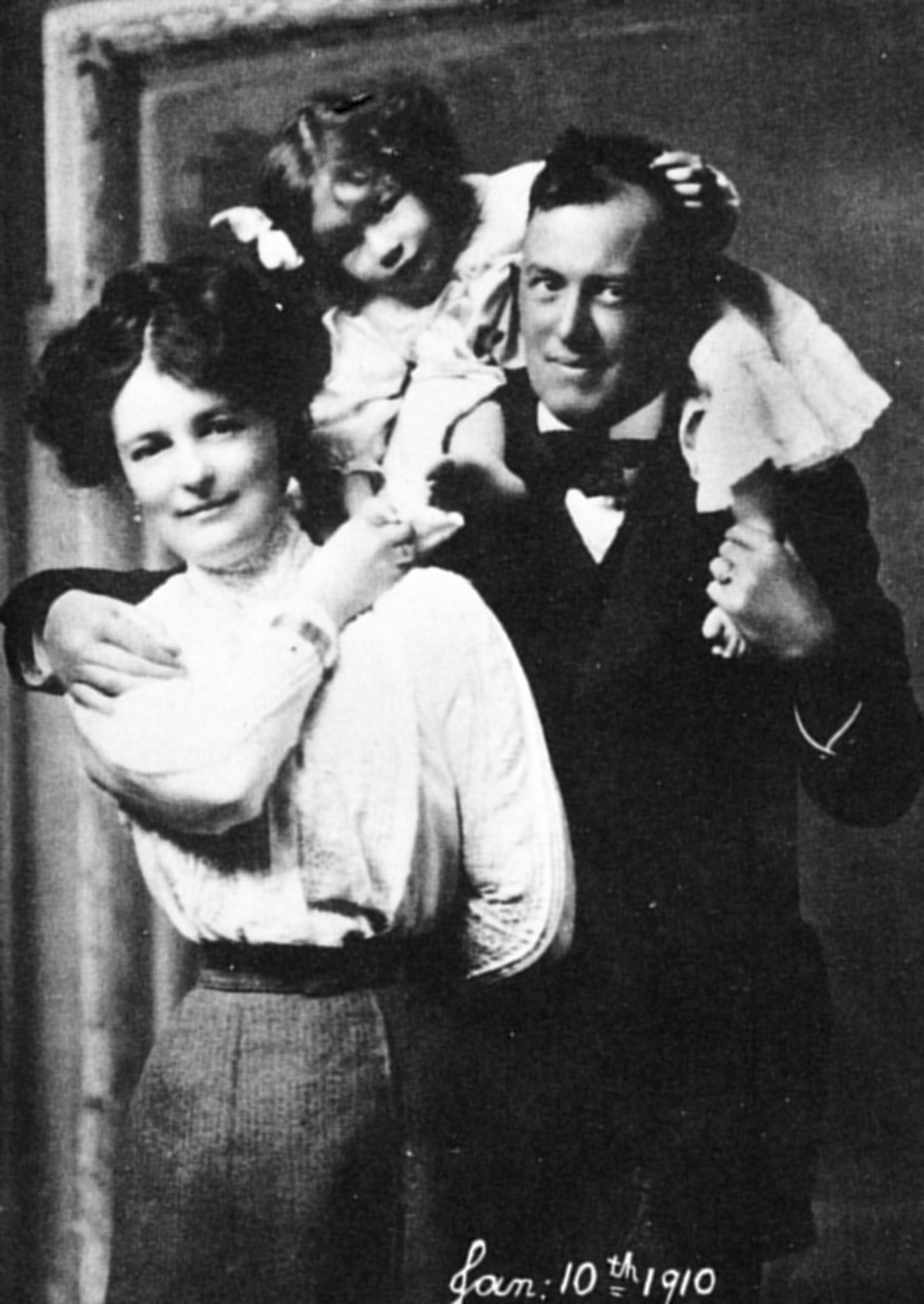 Aleister Crowley with his wife Rose (née Kelly) and daughter Lola Zaza. If the date on the picture is correct, it would have been taken after their divorce in 1909.